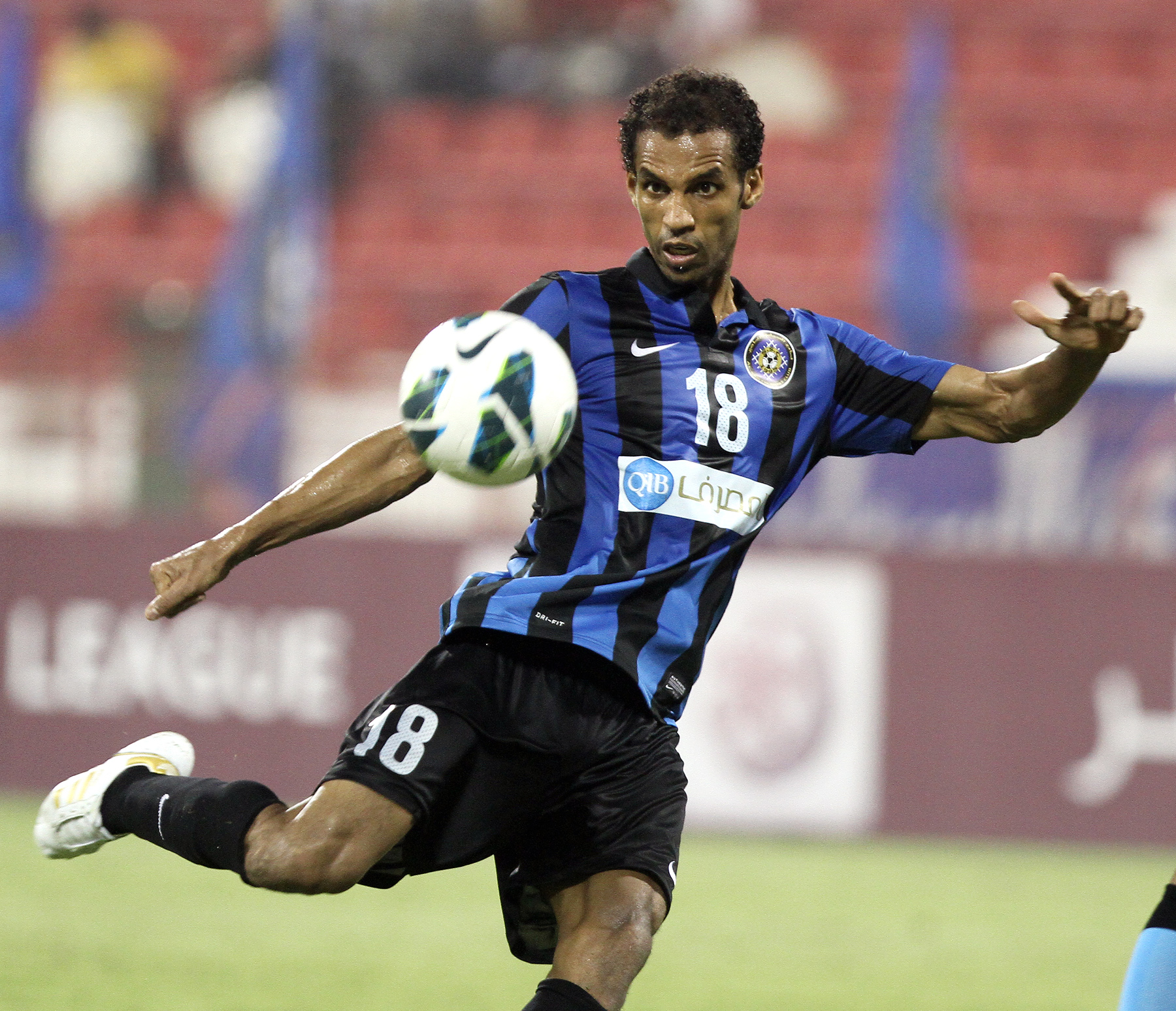 Al Sailiya's Mirghani Al Zain in action during a Qatar Stars League match. Picture by Vinod Divakaran